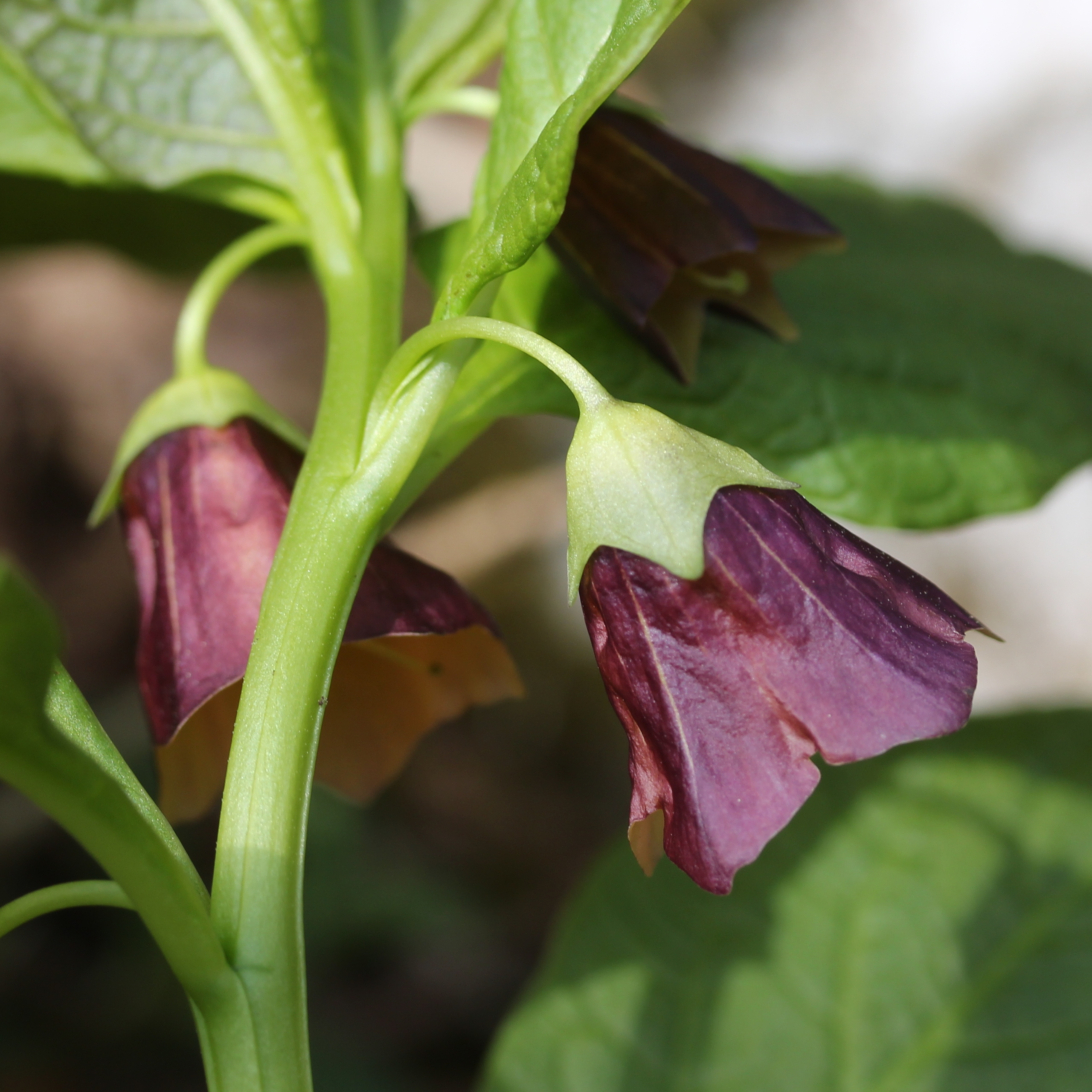 Scopolia japonica in Mount Ibuki, Maibara, Shiga prefecture, Japan.